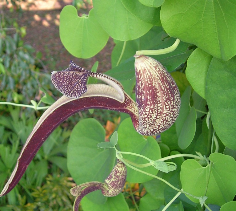 Aristolochia ringens Ornamental Aristolochia species. South India. Feb 2006 Photo by L. Shyamal